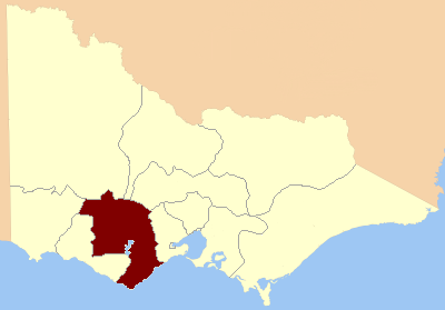 Electoral district of Ripon, Hampden, Grenville and Polwarth. Victoria Legislative Council 1851-56